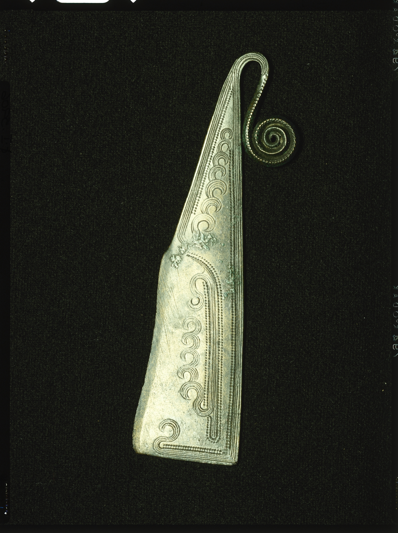 Razor with figure of boat, loose find, younger bronze age